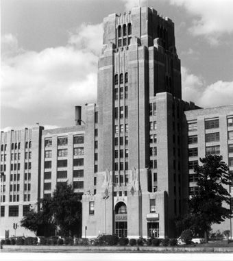 Sears Roebuck and Company Mail Order Store (Landmark Center)found in Boston, Massachusetts before it underwent glass replacement and repair